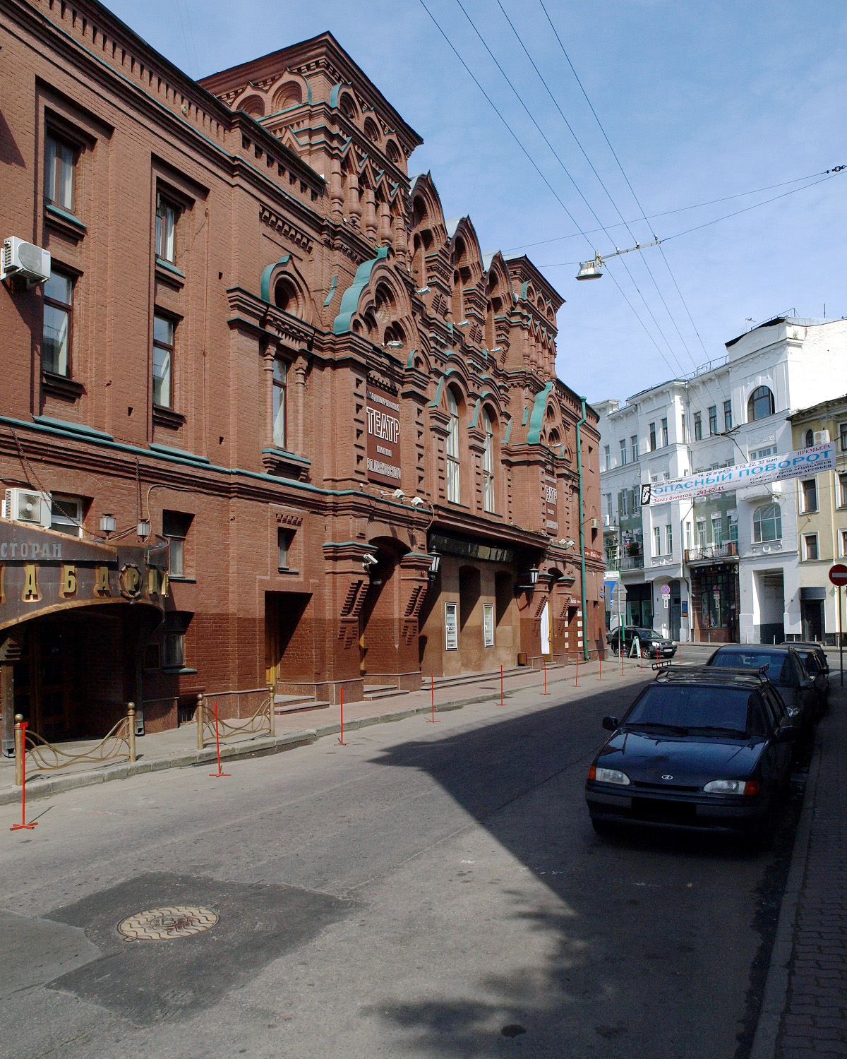 Maly Kislovsky Lane, Moscow.